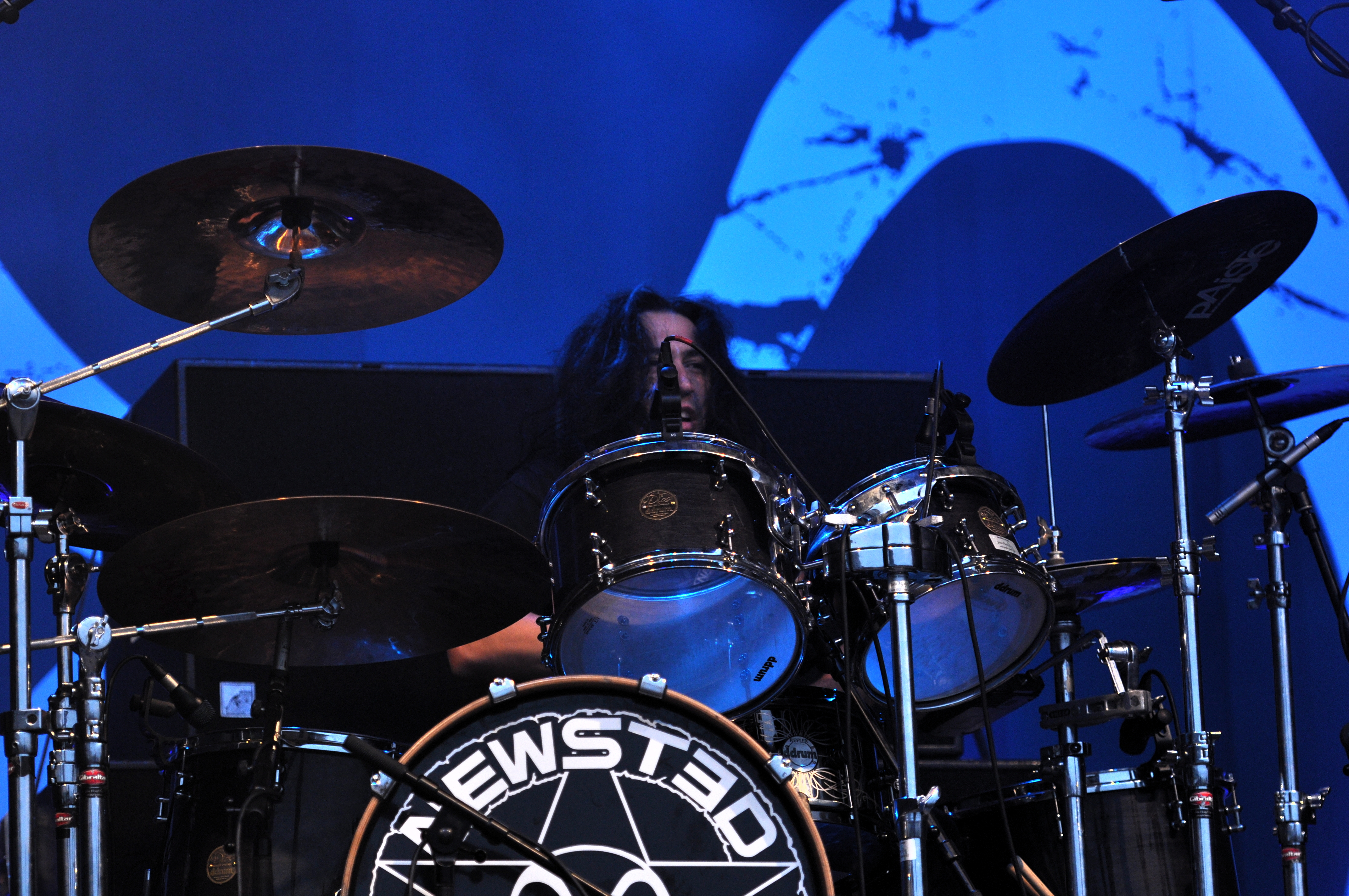 Mike Mushok of Newsted at Rock am Ring 2013